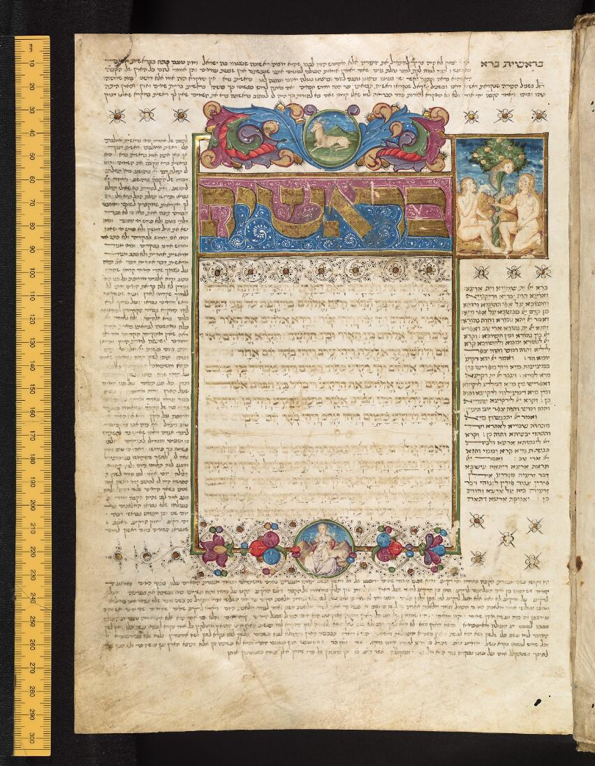 Page from Hebrew Bible: Pentateuch and the Five Scrolls and Hafṭarot with Targum Onḳelos and commentaries. Digitized by the Polonsky Foundation Digitization Project. Shelfmark: MS. Canon Or. 62